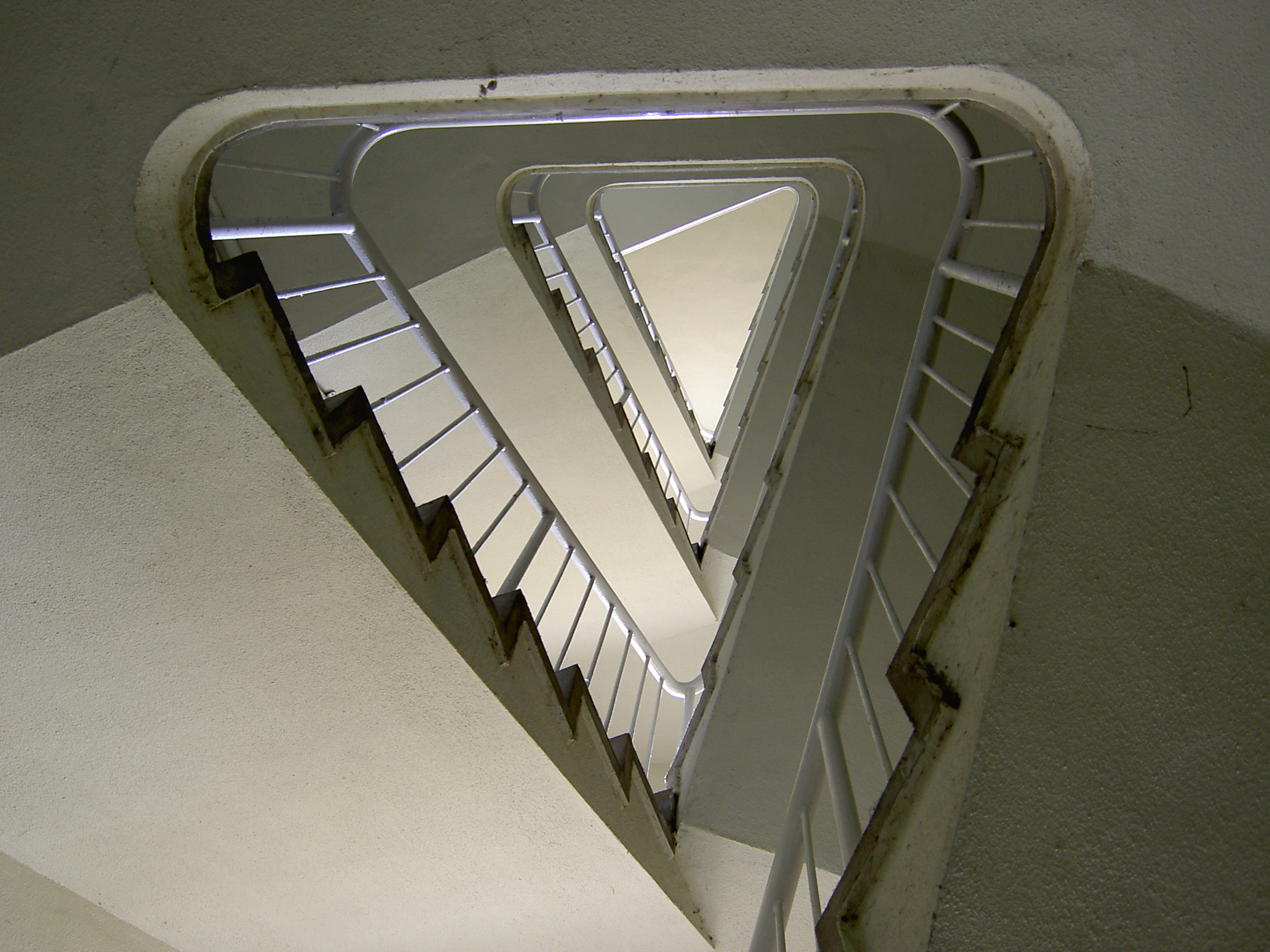 A spiral staircase of a star-shaped ridge in a Kori housing complex